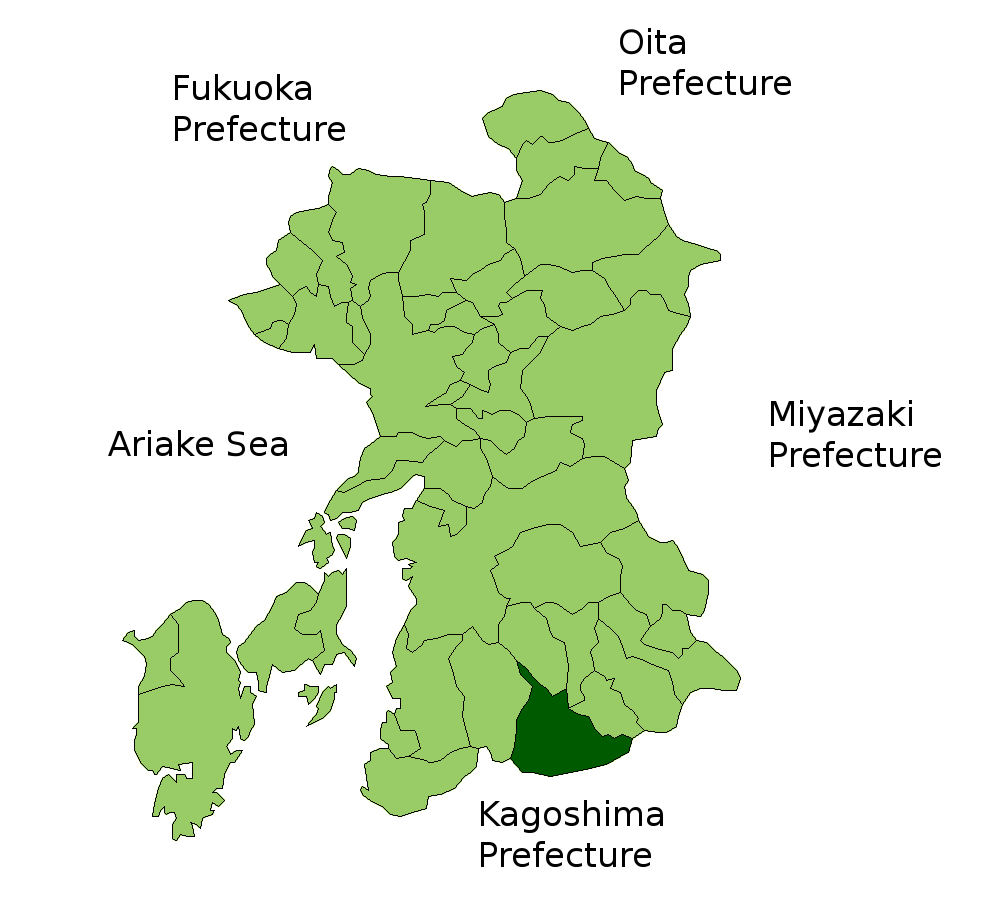 The location of Hitoyoshi in Kumamoto Prefectuur, Japan